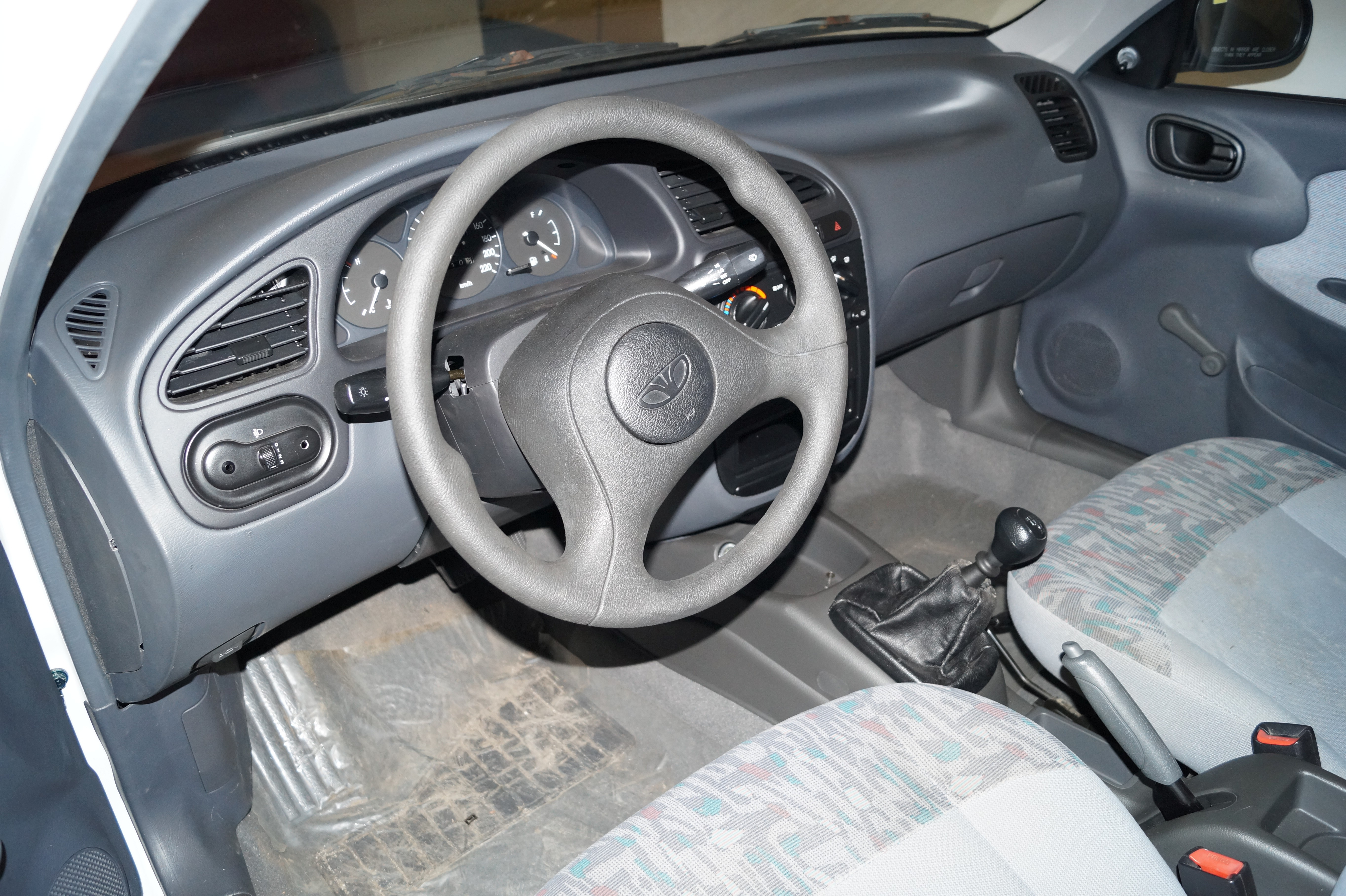 The making of this document was supported by Wikimedia Polska Association, within Wikigrant no. WG 2016-18. English | polski | +/− Prototyp Daewoo-FSO Lanosa pick-up w Muzeum w Chlewiskach